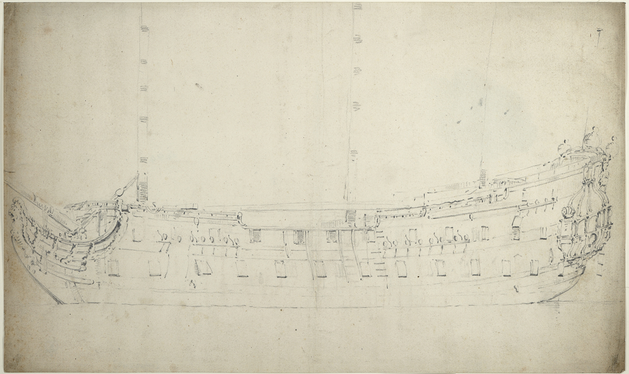 Portrait of the ‘Newcastle’; fourth rate, built in 1653, 54 guns, she was rebuilt in 1692 and wrecked in 1703. She is viewed from the port beam. The drawing is an offset rubbed on the back, accurately worked up with pencil.